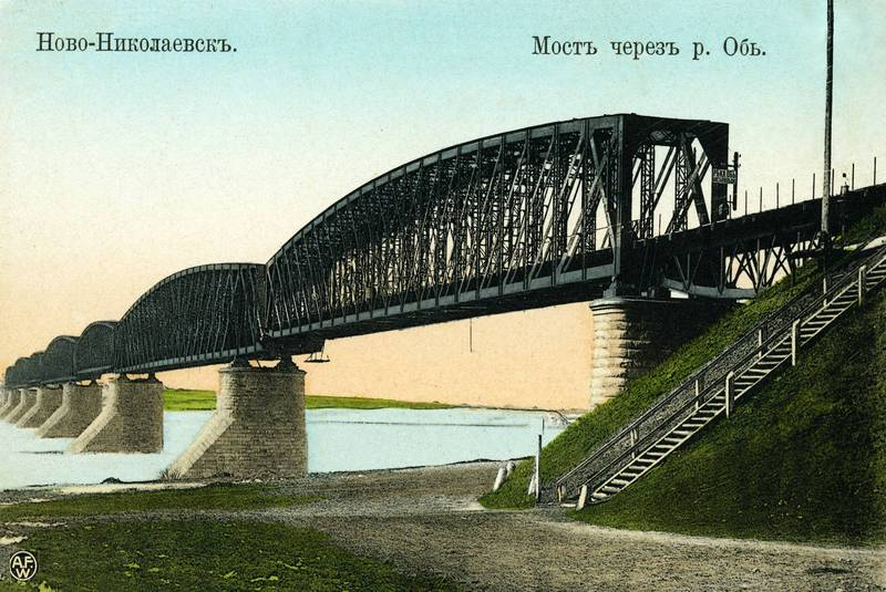 Bridge across Ob River near Novosibirsk (Russia)